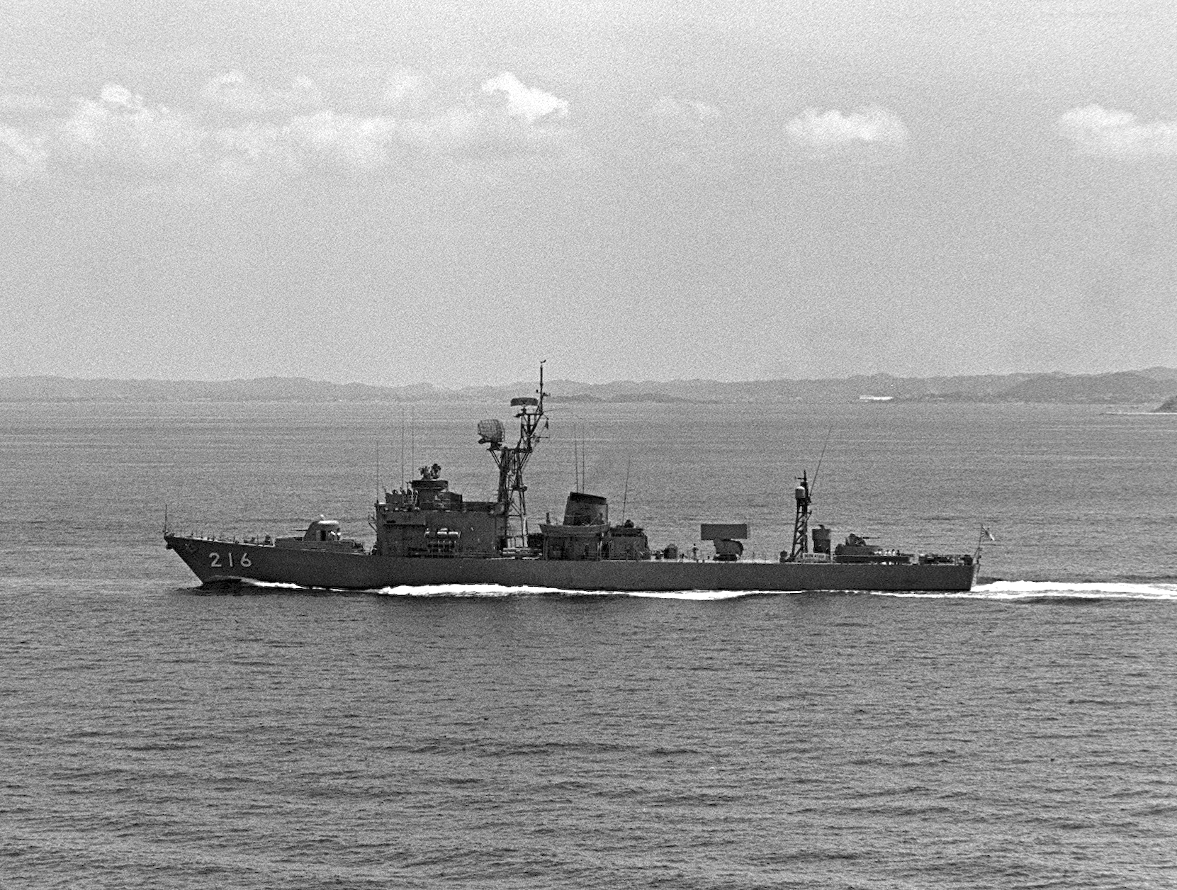 A port view of the Japanese Maritime Self Defense Force frigate Ayase (DE-216) underway.